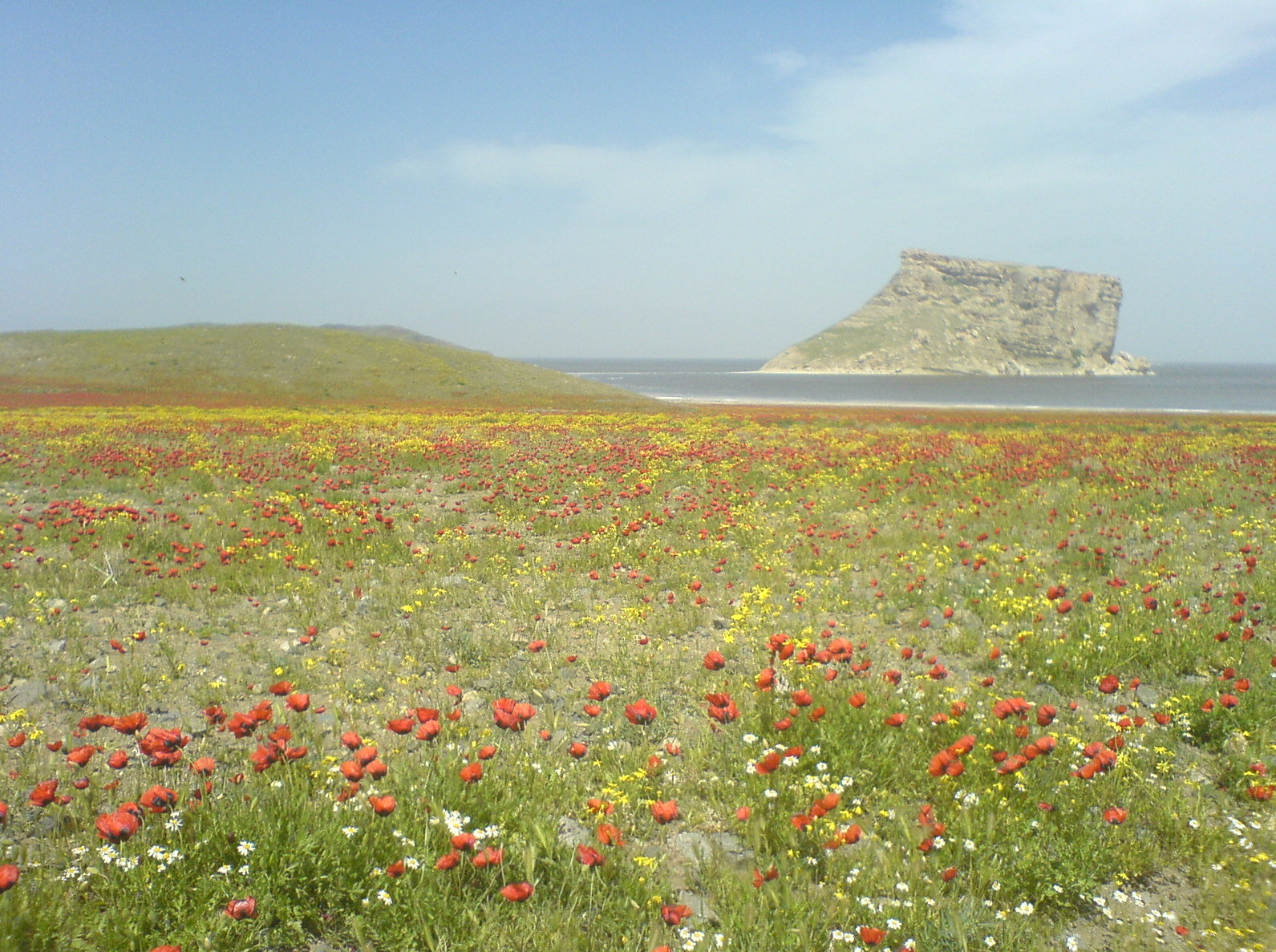 Kazem Dashi in Orumieh lake in north western Iran